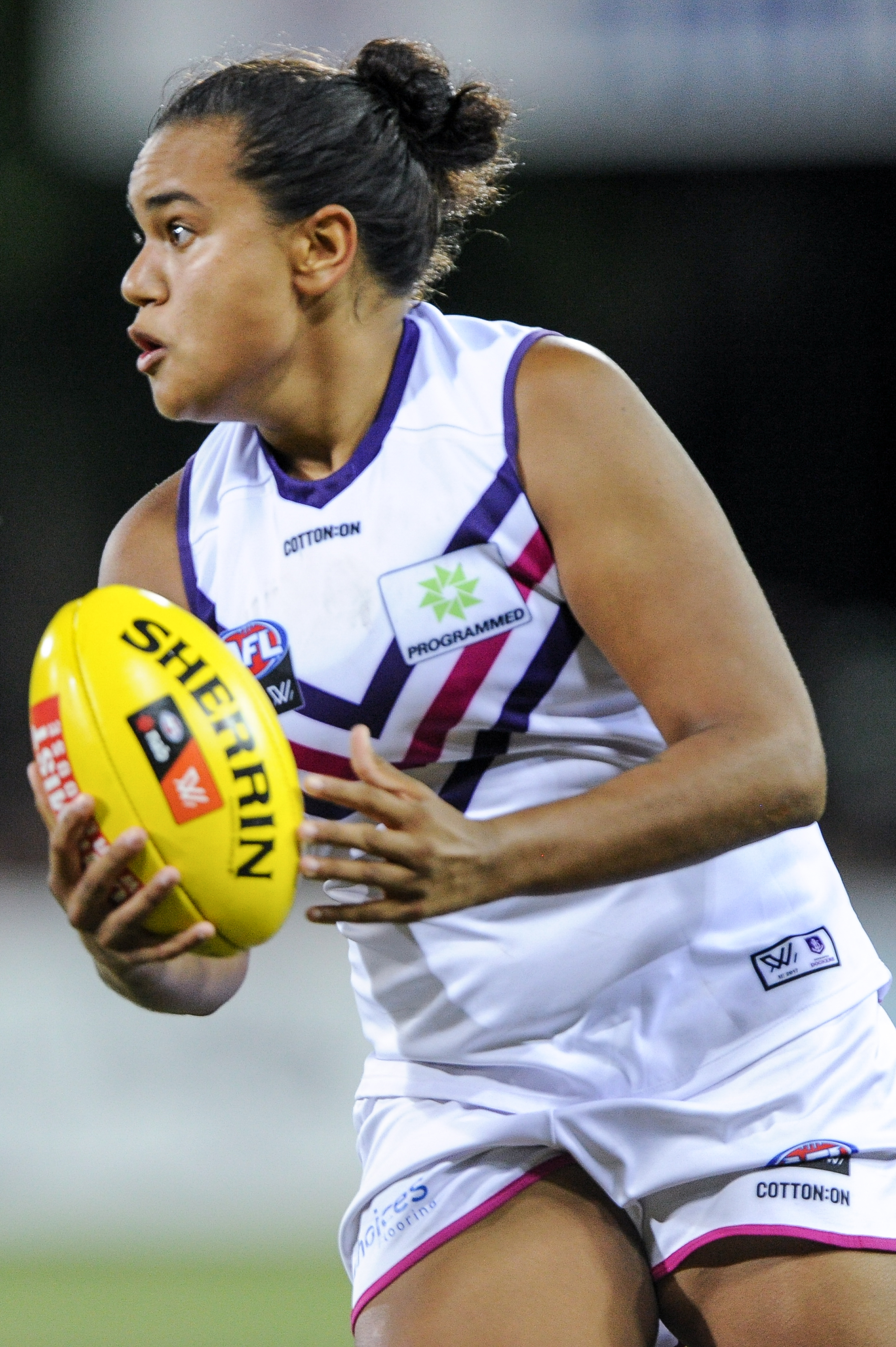 Emily McGuire in the AFL Women's preseason match between the Adelaide Football Club and Fremantle Football Club on 20 January 2018 at TIO Stadium.